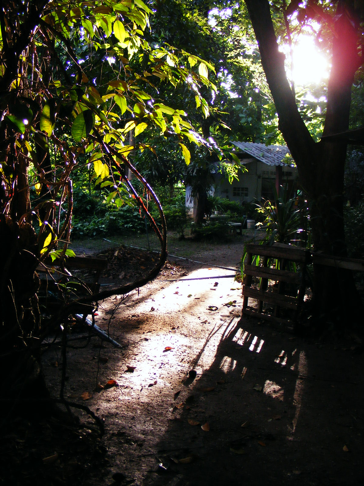 Wat Khung Taphao, Ban Khung Taphao, Khung Taphao subdistrict, Mueang Uttaradit, Uttaradit Province, Thailand.) on December 2, 2008.